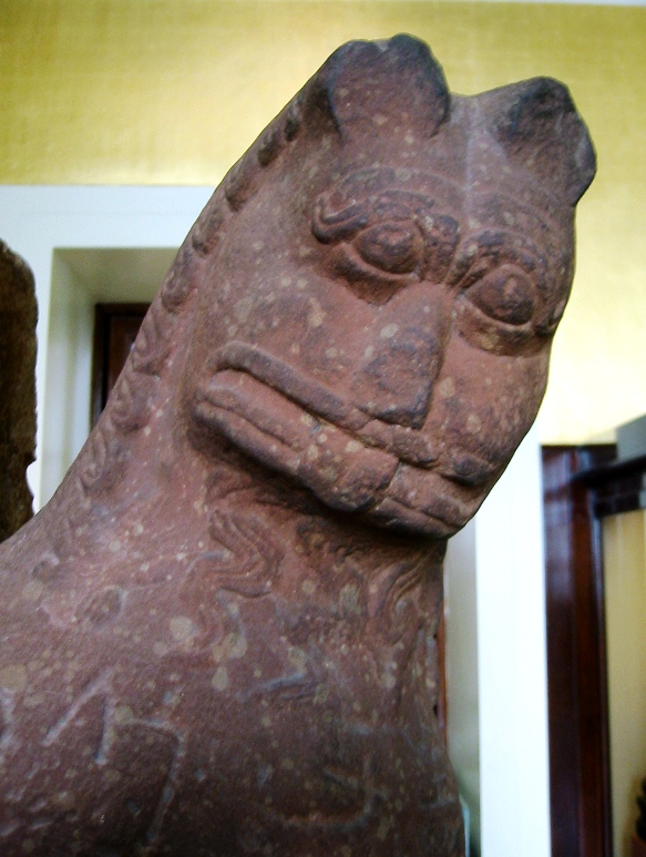 Pillar capital with addorsed lions and Prakrit inscriptions in the Kharoshthi script place of creation: Mathura region, Uttar Pradesh